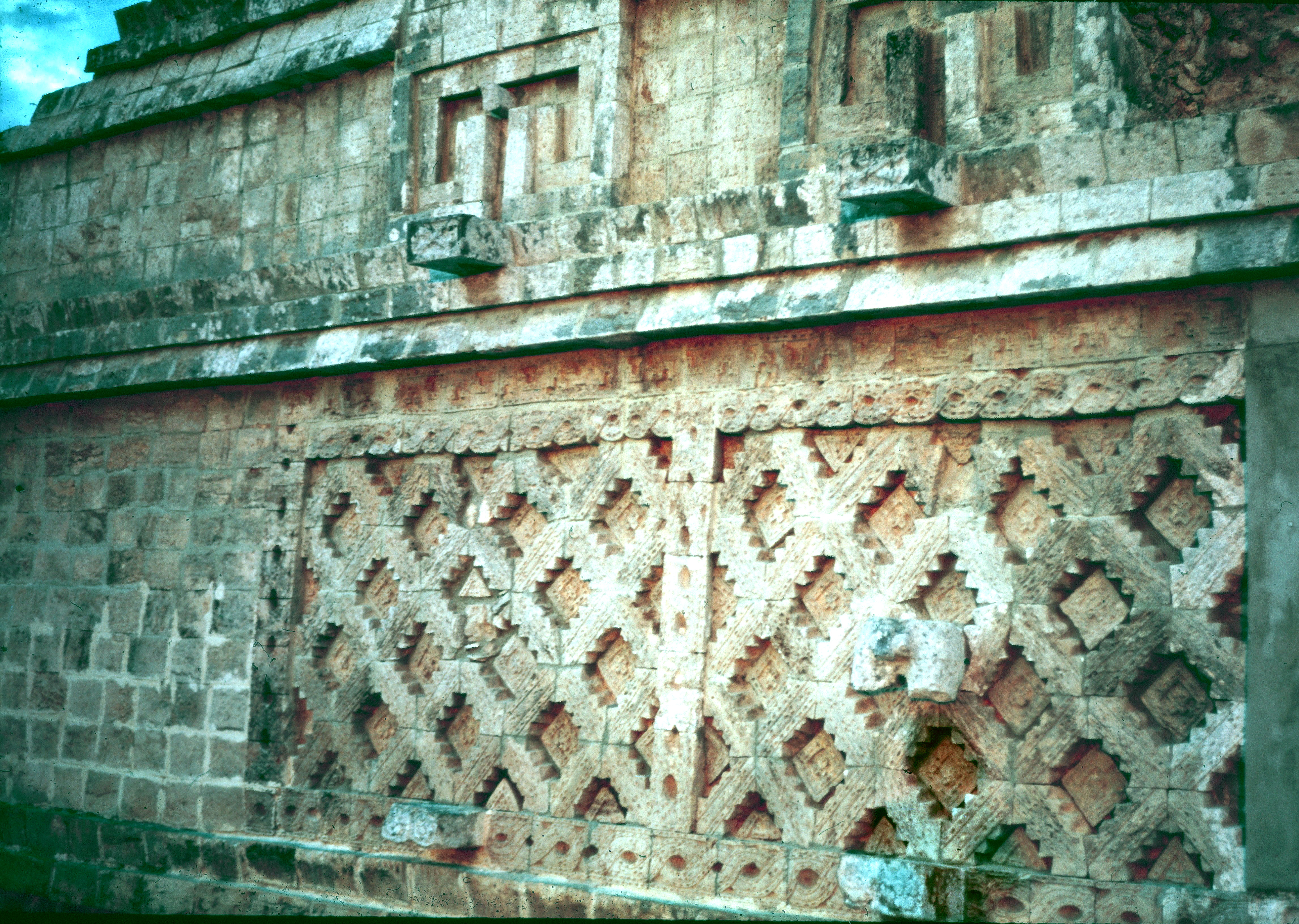 Uxmal, Adivino, Mexico: Adivino, Temple V, west facade